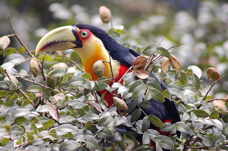 Red-breasted Toucan or Green-billed Toucan (Ramphastos dicolorus) in a tree at Jardim Botânico de São Paulo. Jardim Botânico de São Paulo. Este tucano está solto na mata existente dentro do Jardim Botânico. Ele estava comendo as sementes desta árvore. Gosto de fotografar animais soltos, de preferência em seu habitat natural....